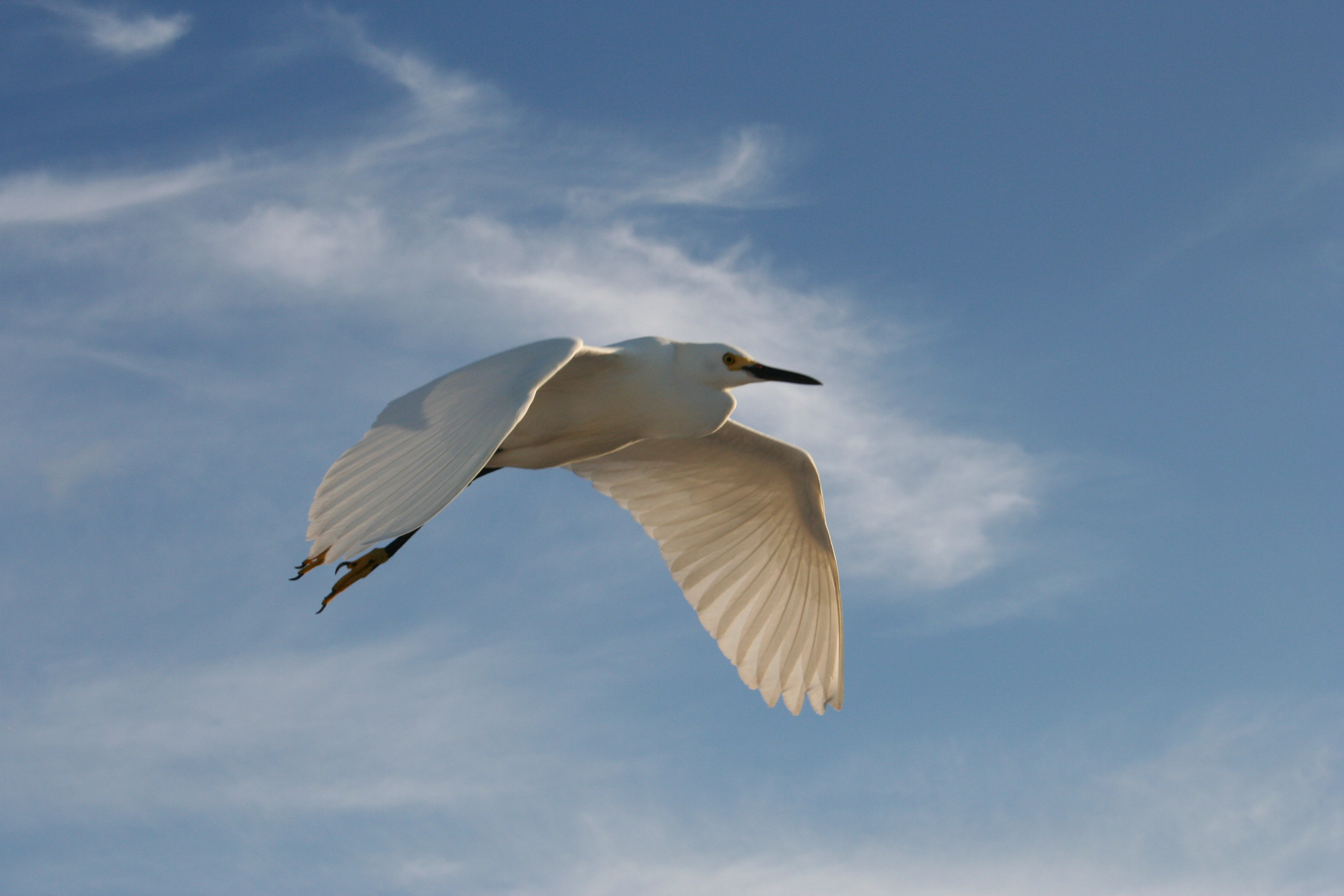 Photo of a snowy egret in flight.